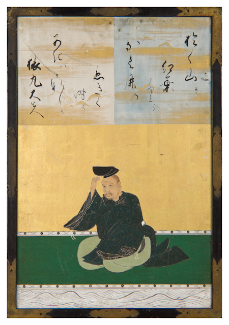 Sanjūrokkasen-gaku (Thirty-six Poetry Immortals framed picture) #11: Sarumaru no Taifu